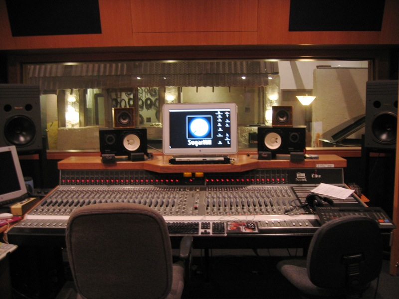 Studio A control room at SugarHill Recording Studios, Houston Texas Neotek Elite unknown large monitor Tannoy System 15 ? Yamaha NS-10M Studio Auratone 5C ?